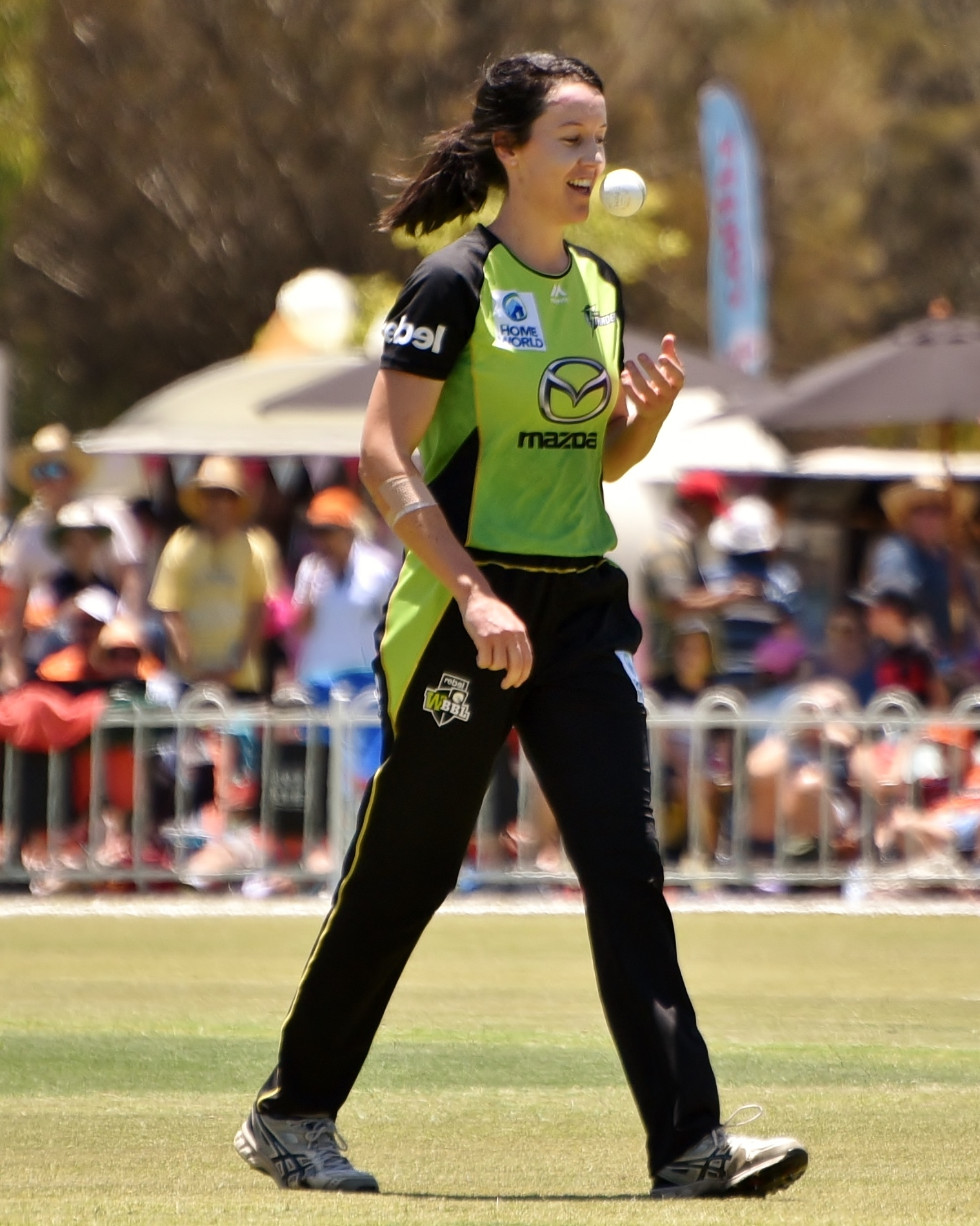 Sydney Thunder all-rounder Lisa Griffith getting ready to bowl against the Perth Scorchers, in a WBBL match at Lilac Hill Park in Perth